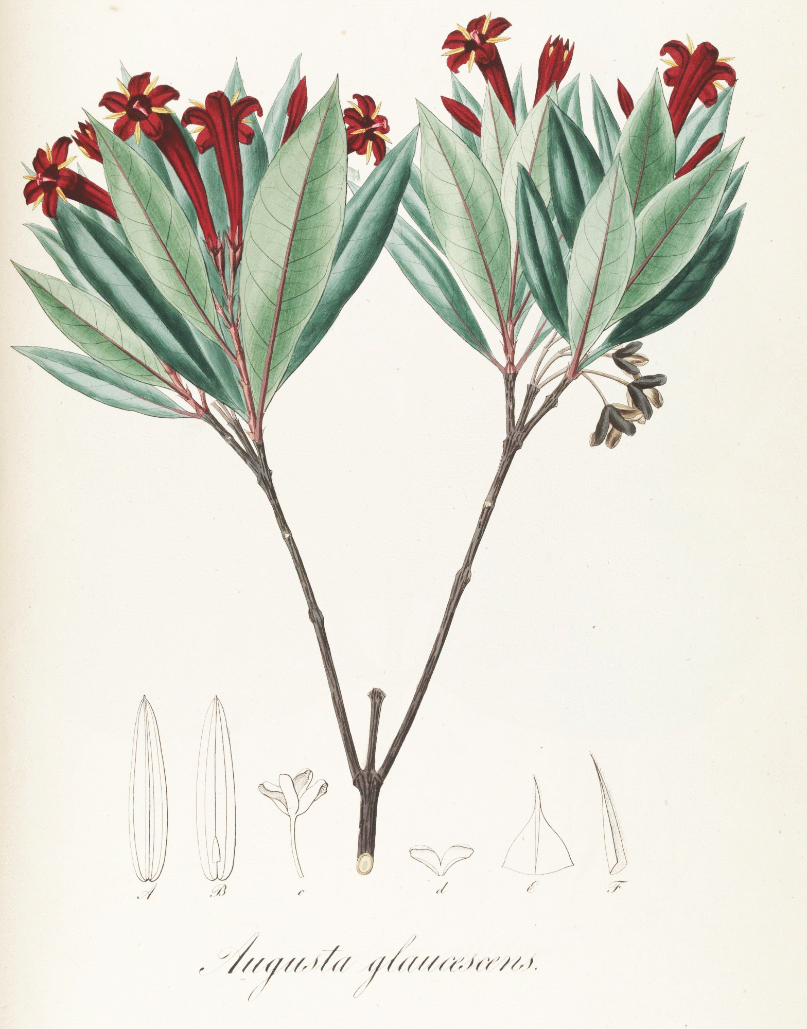 Plate from book